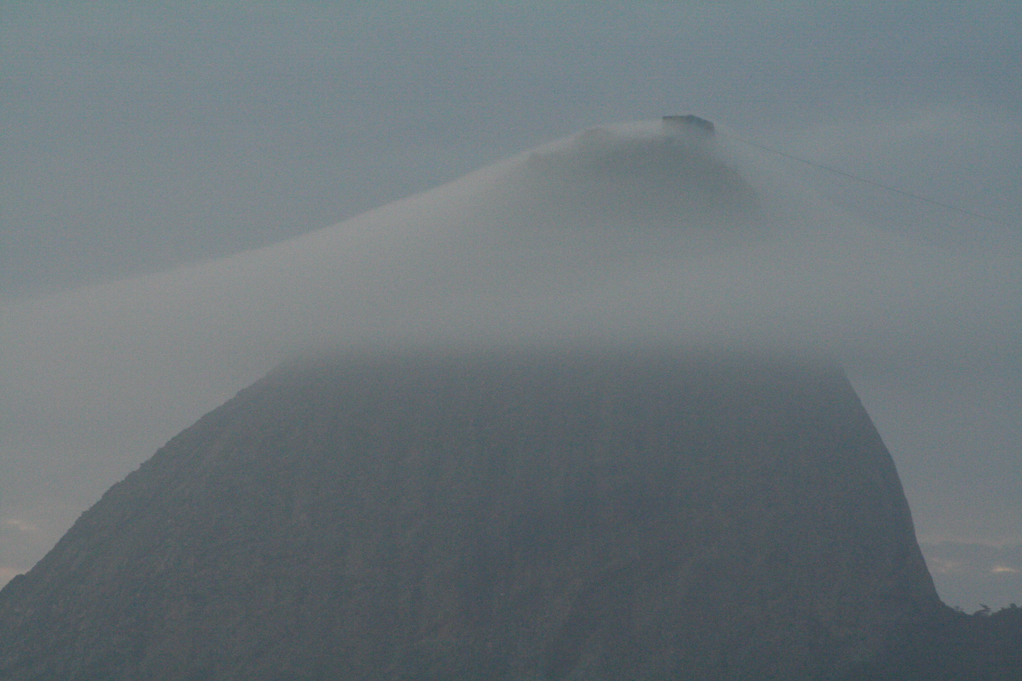 Sugarloaf Mountain in Rio de Janeiro, Brazil, with cloud layer partially obscuring cable car facility. Photo by Johntex